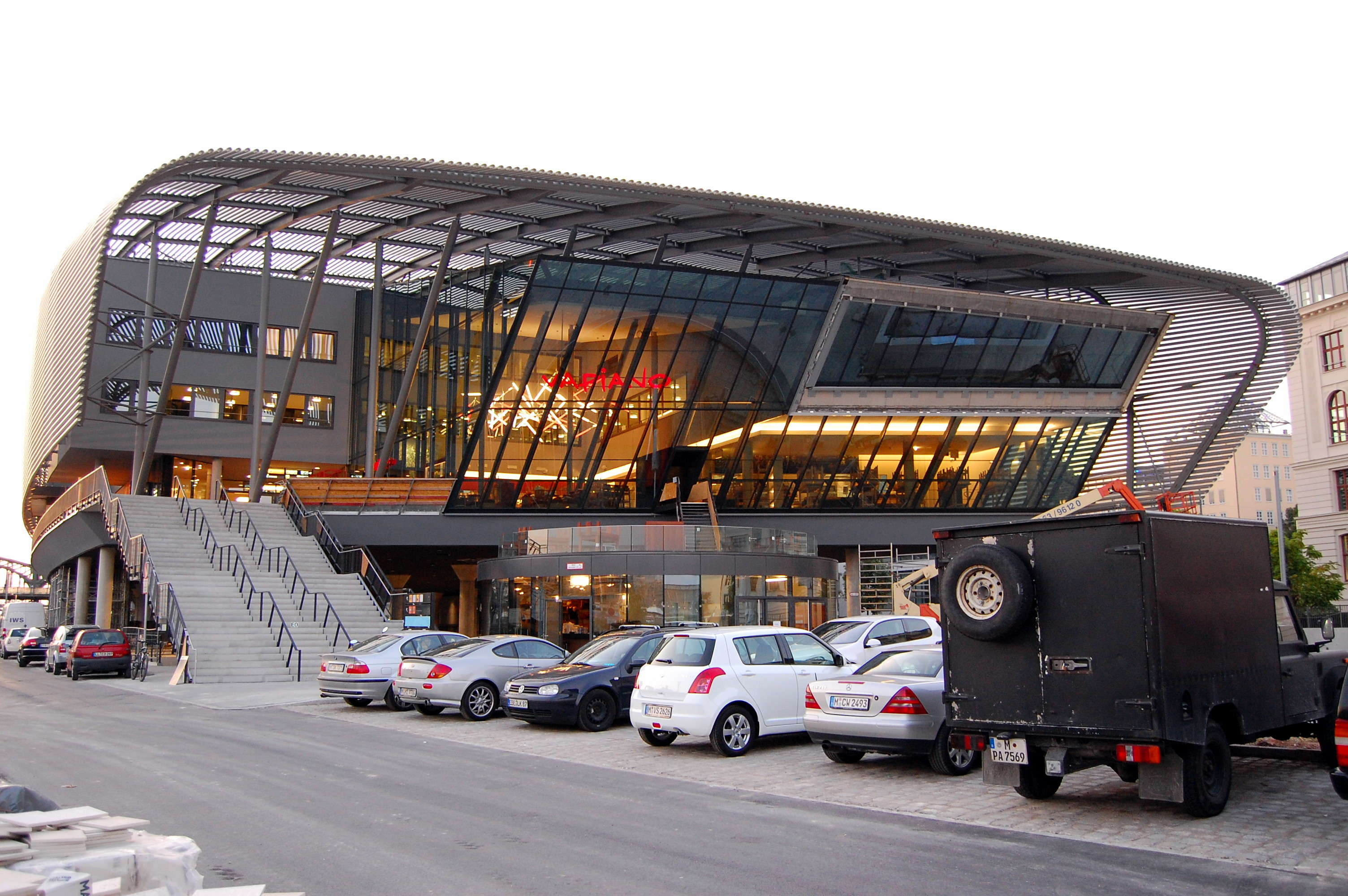 ZOB Munich (other side)